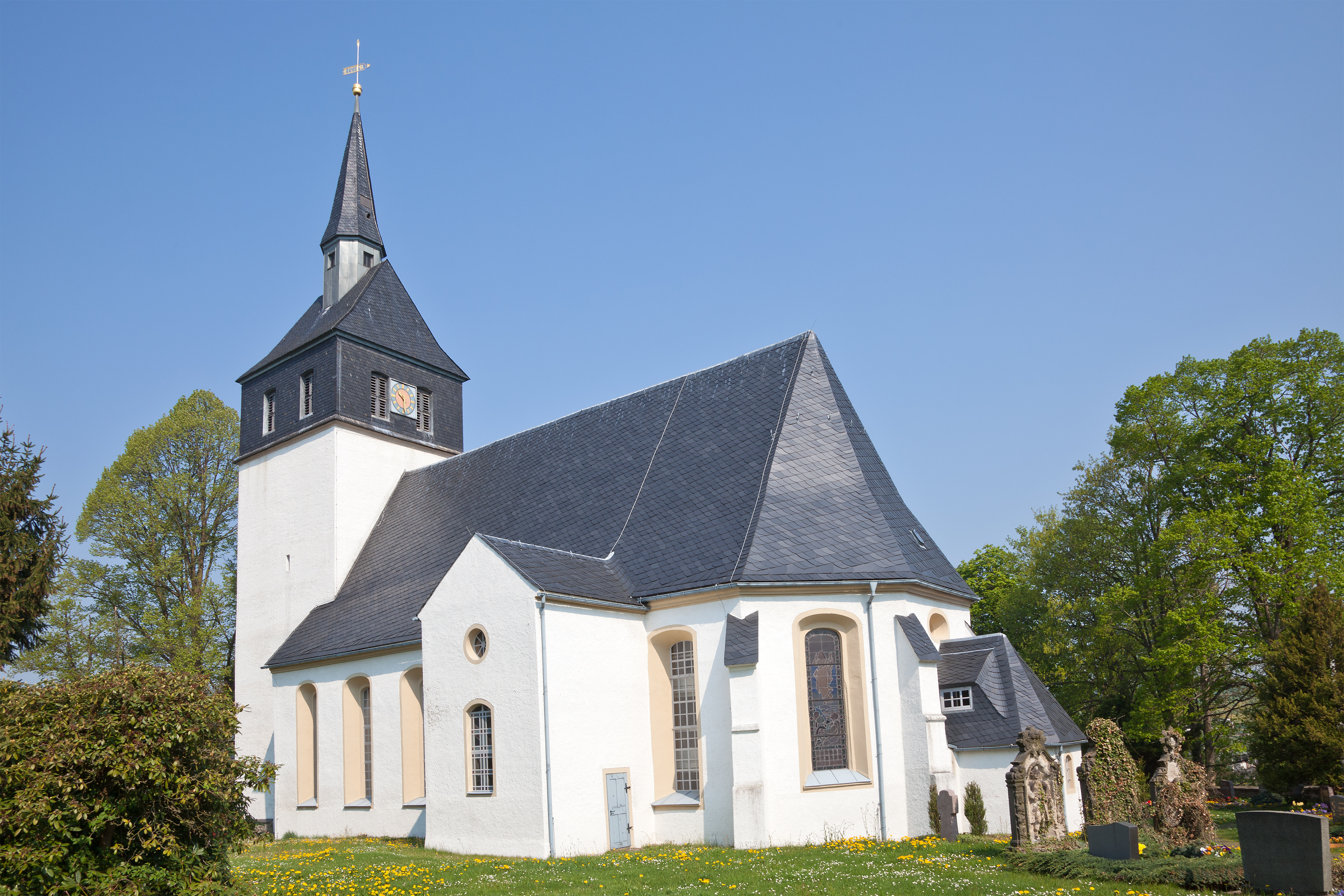 Lichtenberg, Mittelsachsen, church